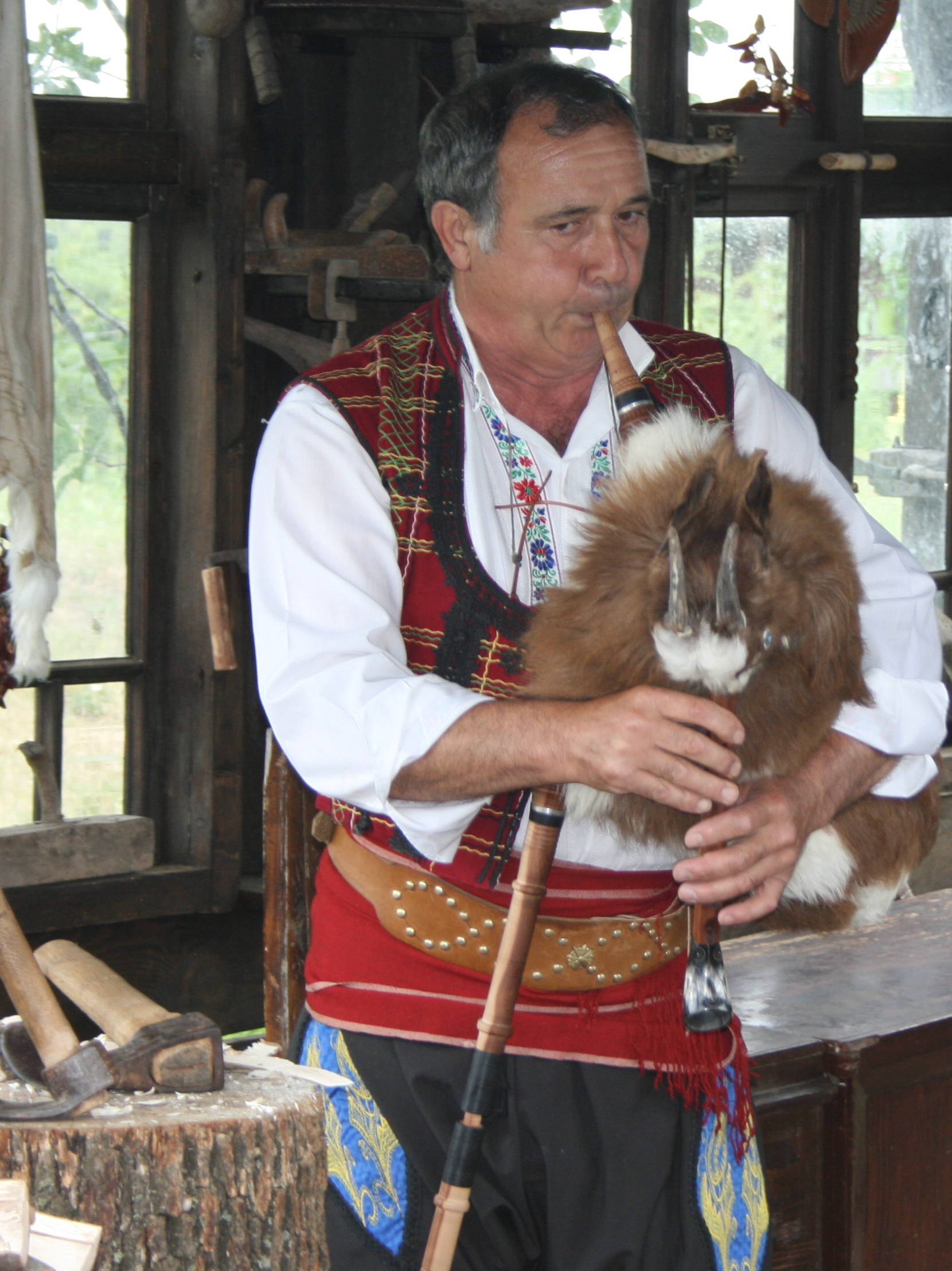 Eastern Bulgarian musicians with their hand-made Bulgarian bagpipes (Gajda).